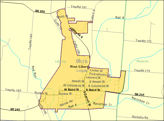 Map of West Liberty, a village in Logan County, Ohio, United States, with its boundaries at the time of the 2000 census.